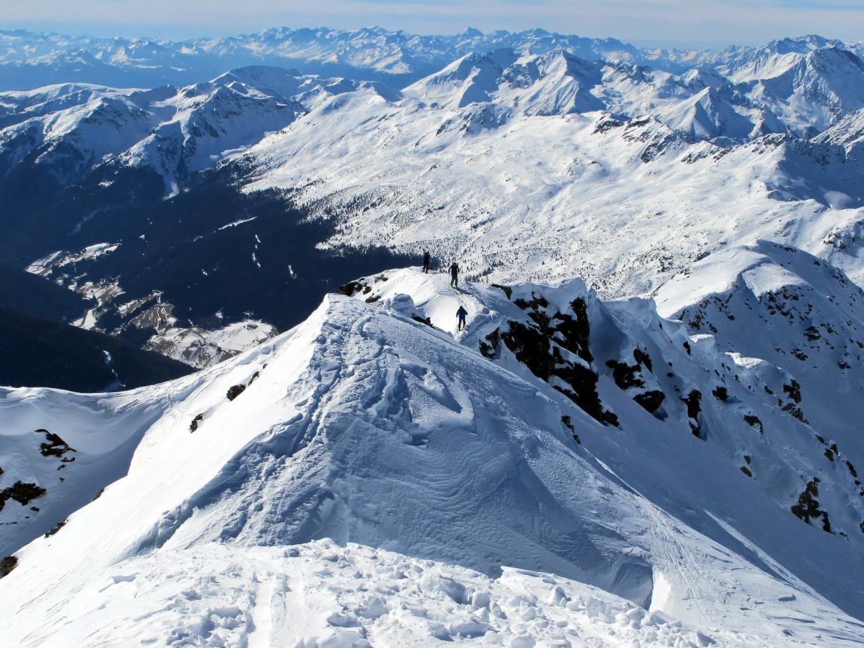 Mountain Jakobsspitze (2745 m): ridge to summit